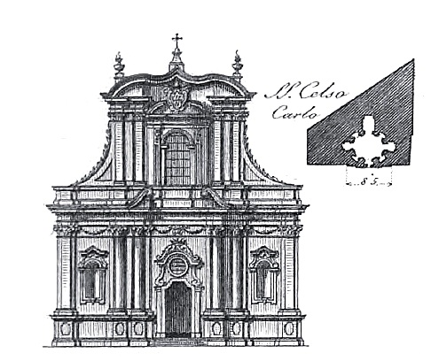 Elevation and plan of Ss. Celso e Giuliano (Rome)